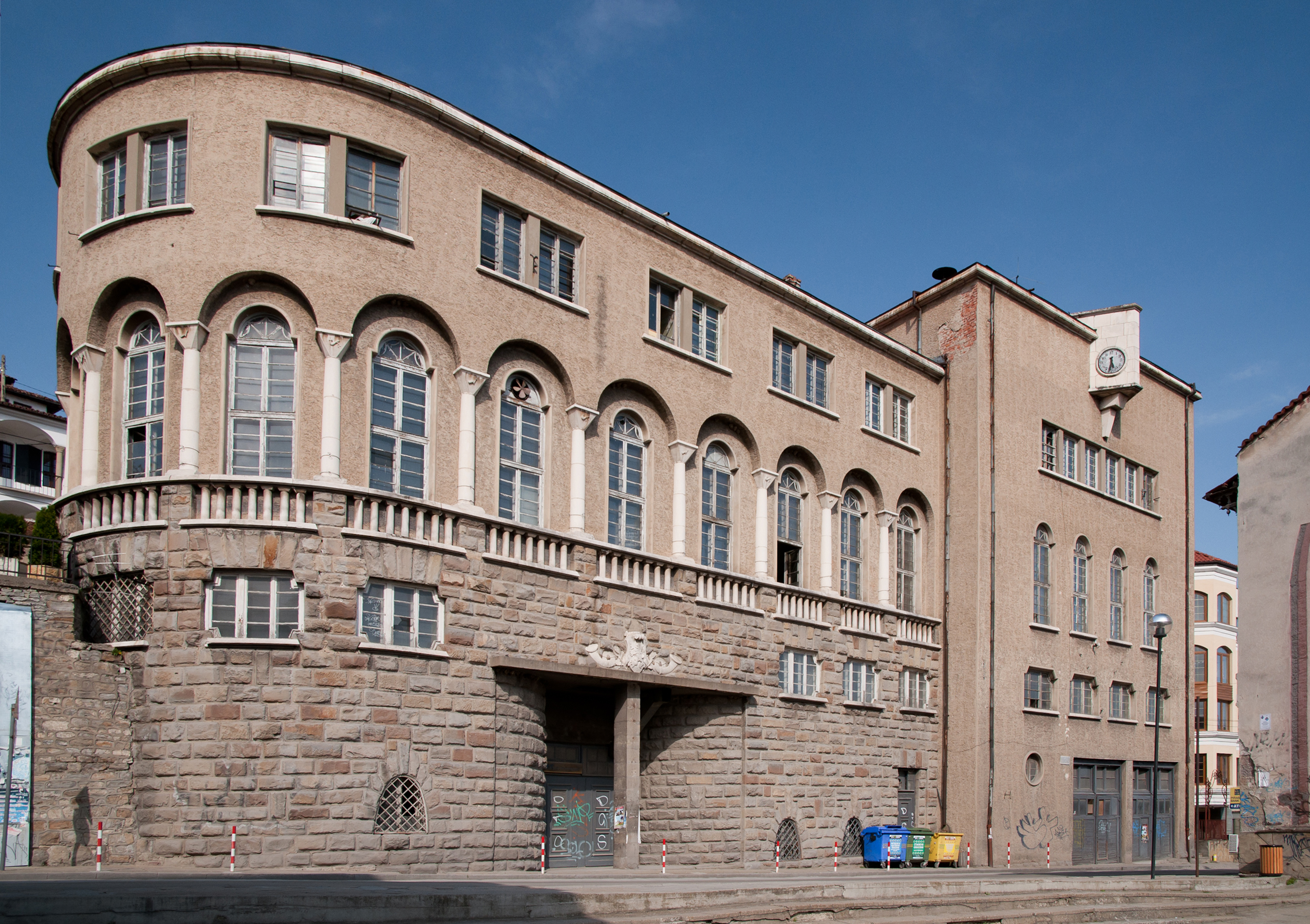 The Former Post Hall in Veliko Tarnovo, Bulgaria.